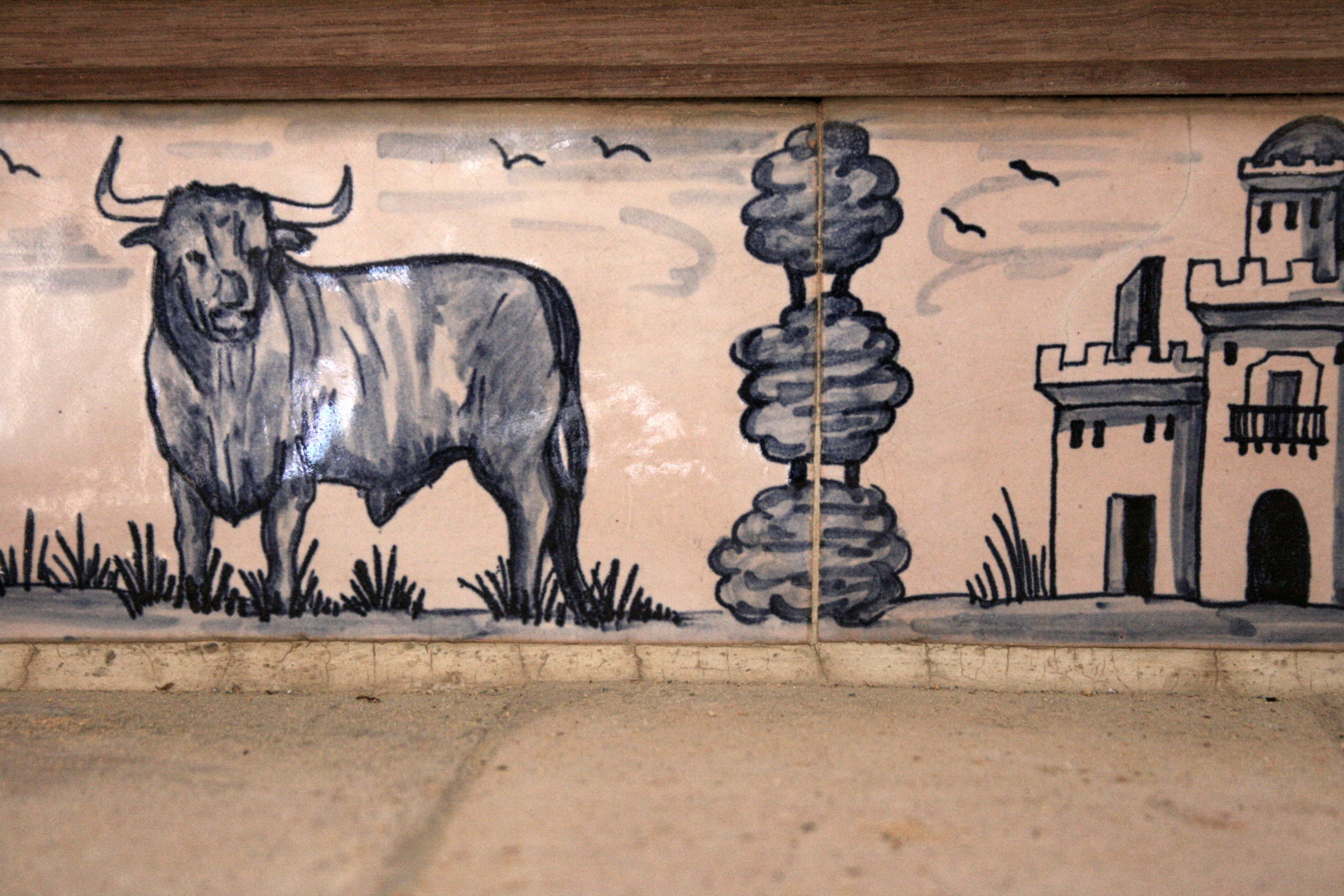 Plaza de Toros (bullring) of Ronda, Spain. Step decorated with azulejos